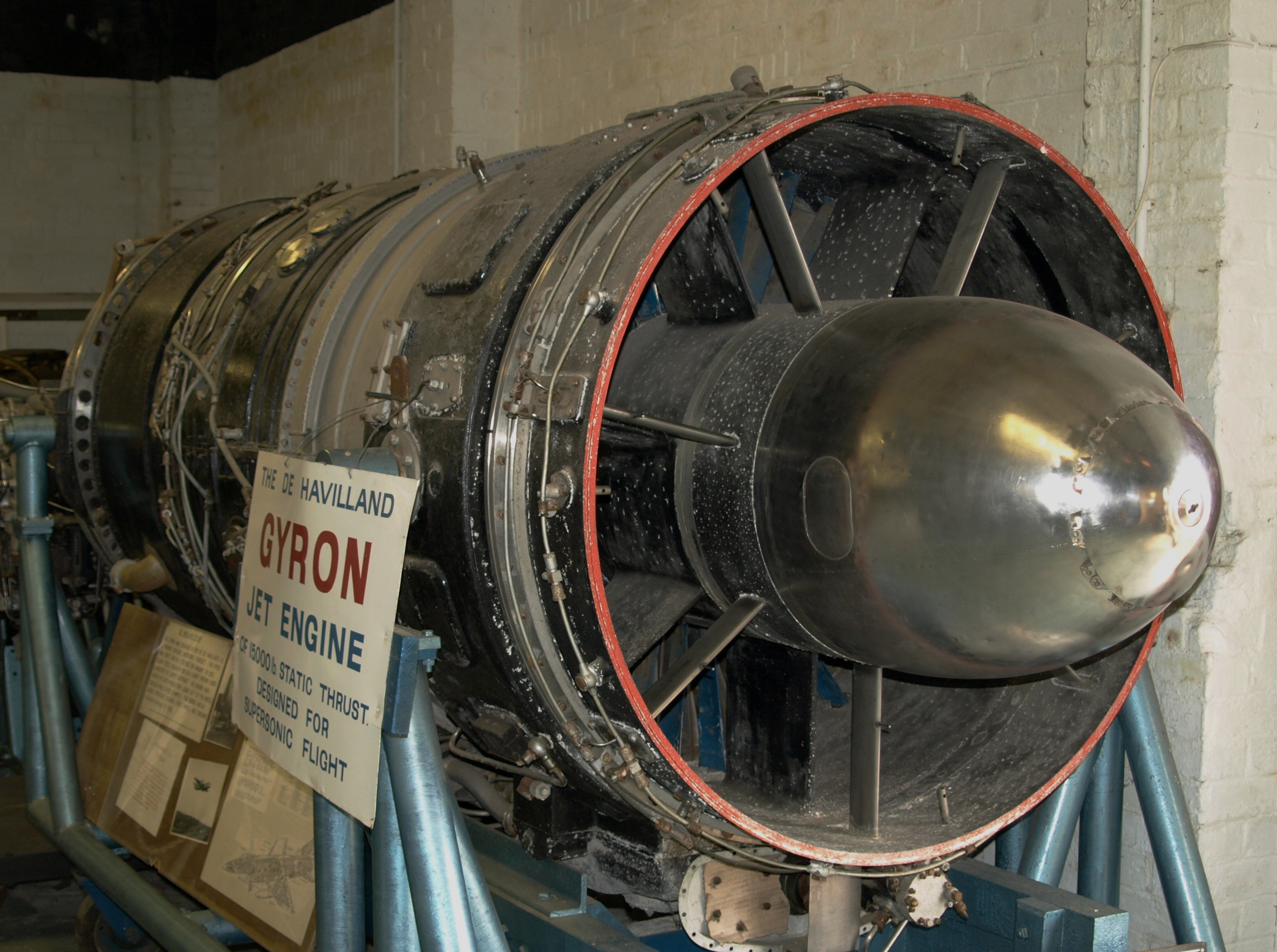 de Havilland Gyron turbojet engine at the de Havilland Aircraft Heritage Centre